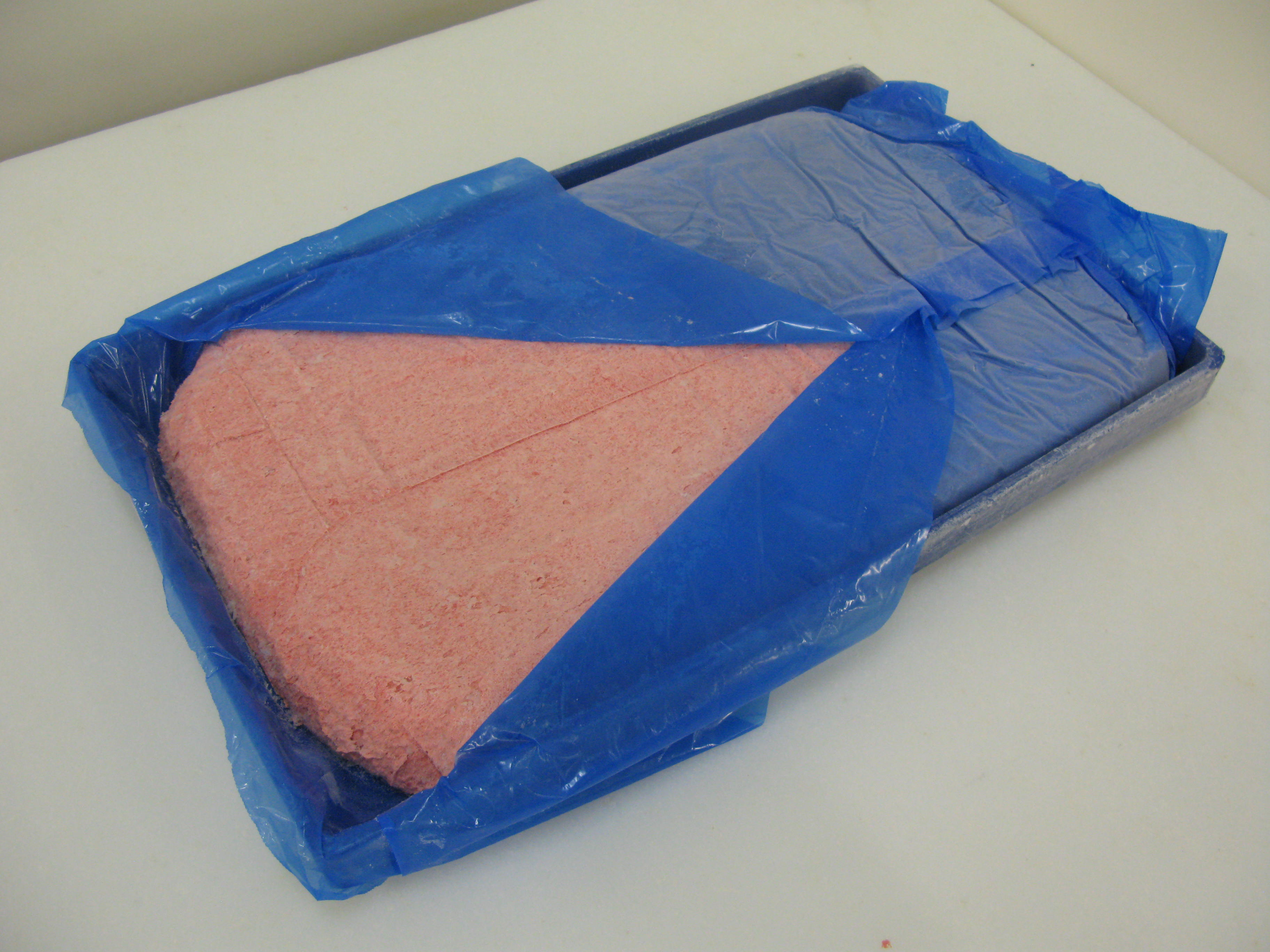 Chicken MDM,MRM,MSM in Polyblock